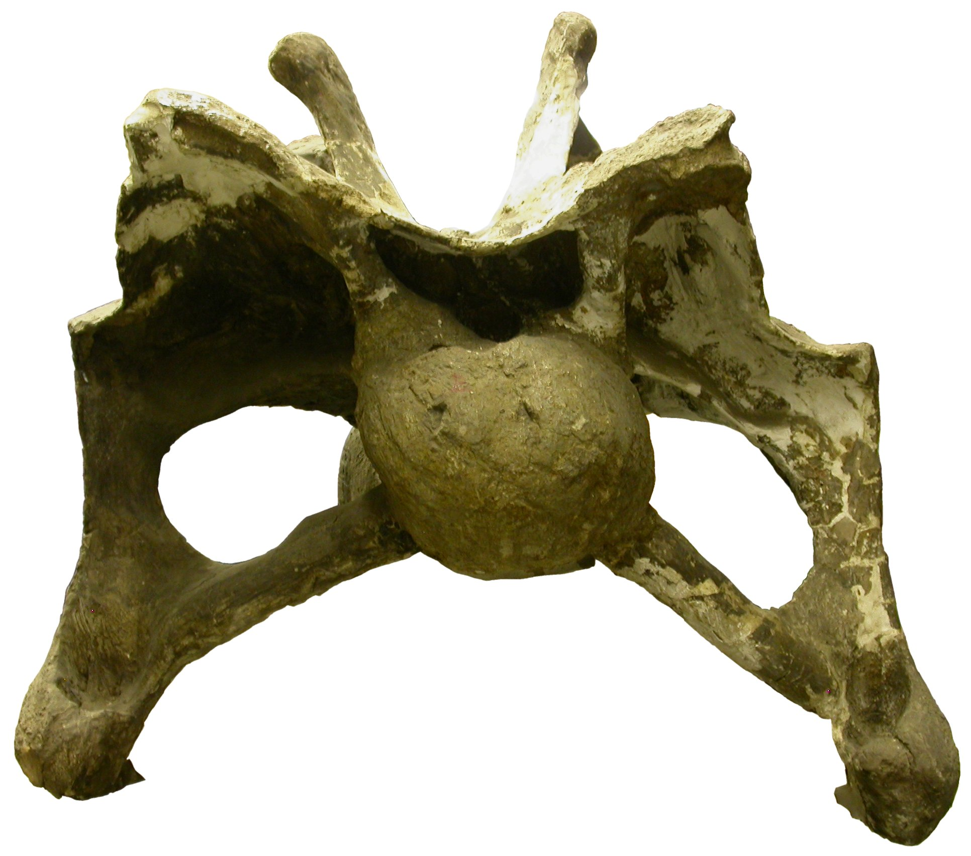 Holotype of Apatosaurus ajax YPM 1860 cervical in anterior view.